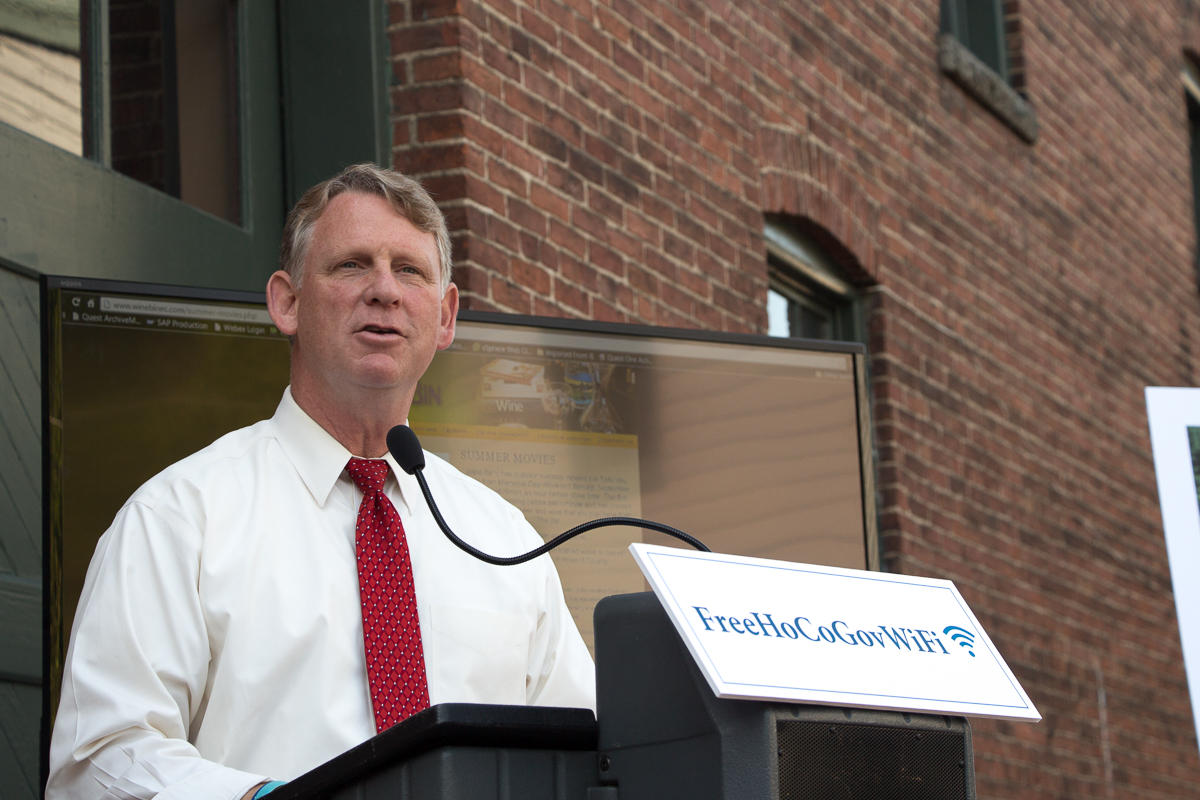 County Executive Allan Kittleman in July 2015 announcing Free Wifi in Ellicott City, Maryland at no charge to the Howard County tax payer.